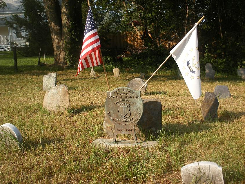 Photo of grave site of RI President Samuel Gorton, Samuel Gorton Cemetery, 422 Samuel Gorton Ave., Warwick, RI, 21 July 2011